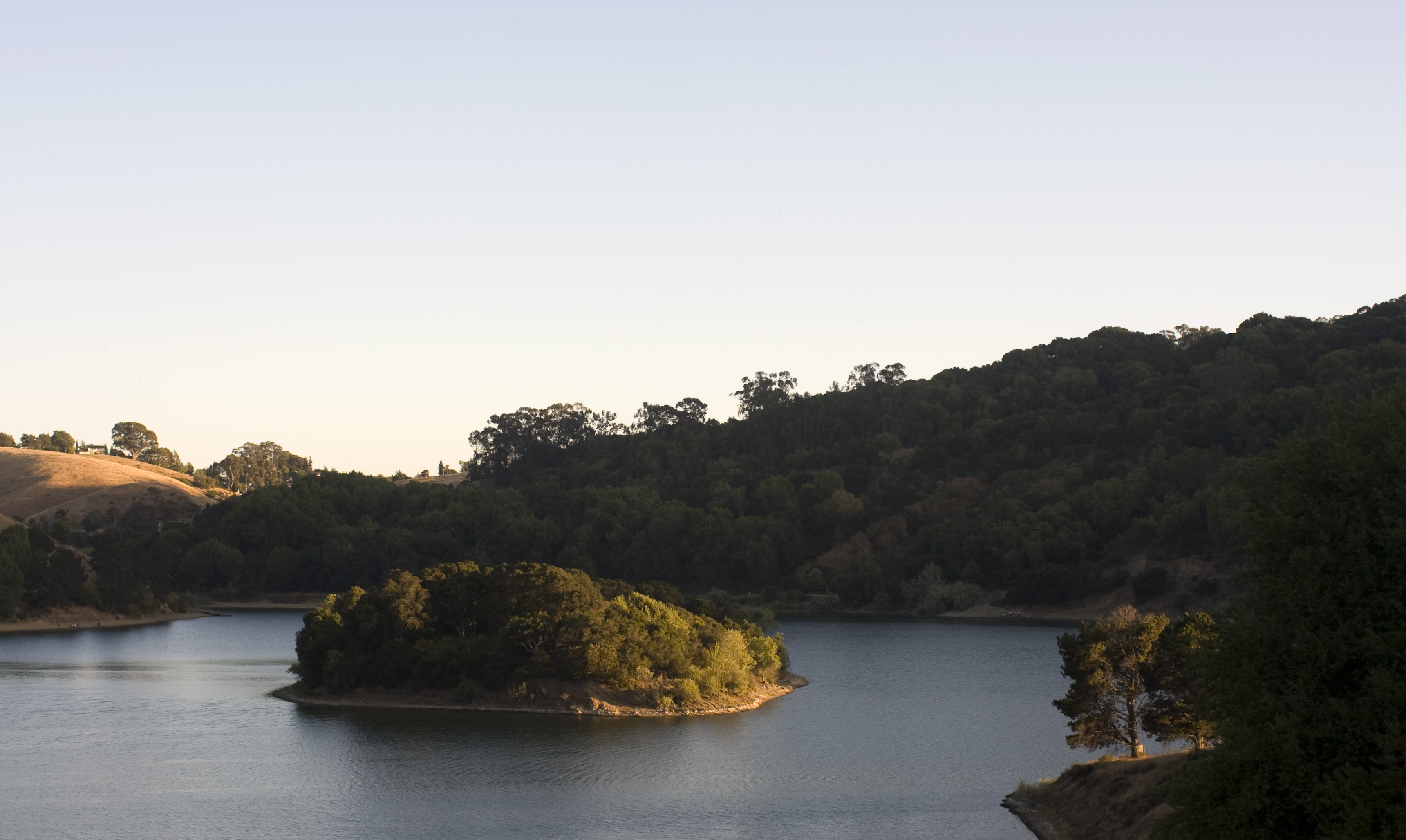 View of Lake Chabot in the early evening.